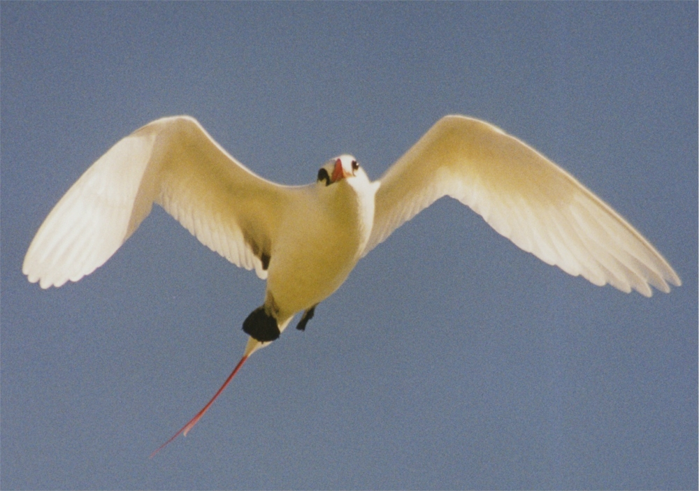 Red-tailed Tropicbird at Midway Atoll. The image was is a scan of the old print. The image was taken by Brocken Inaglory